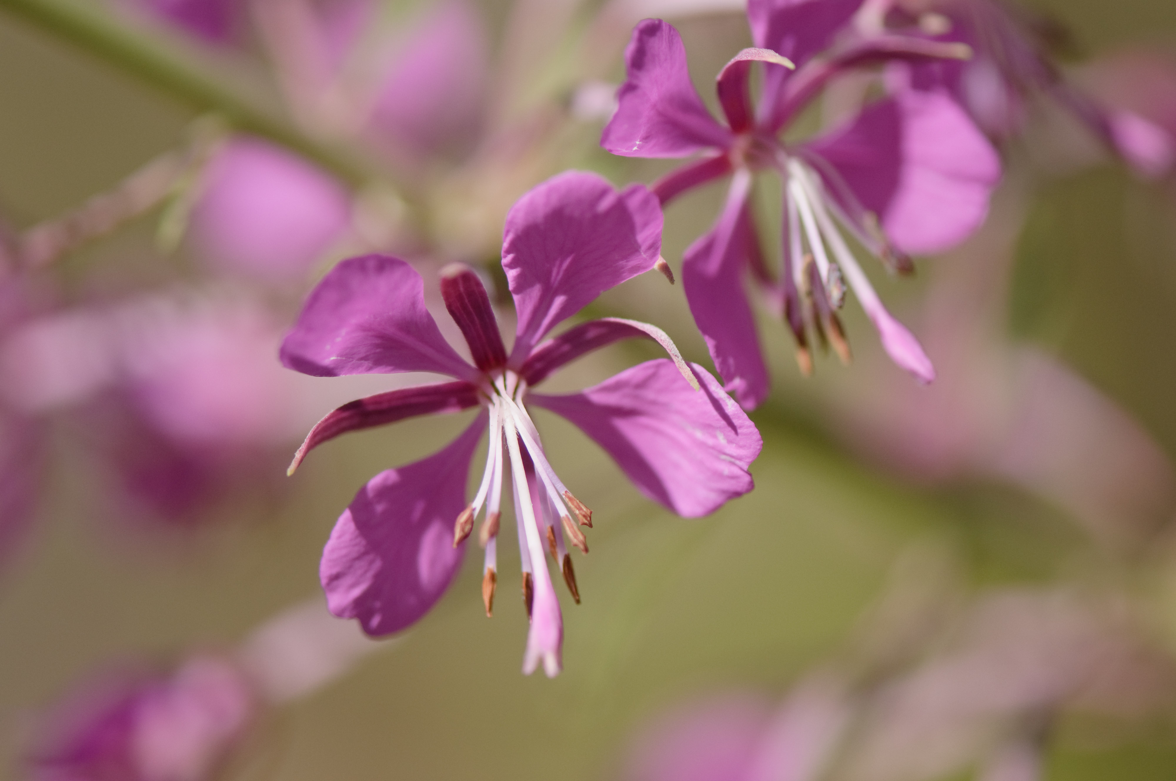 Chamerion angustifolium flower